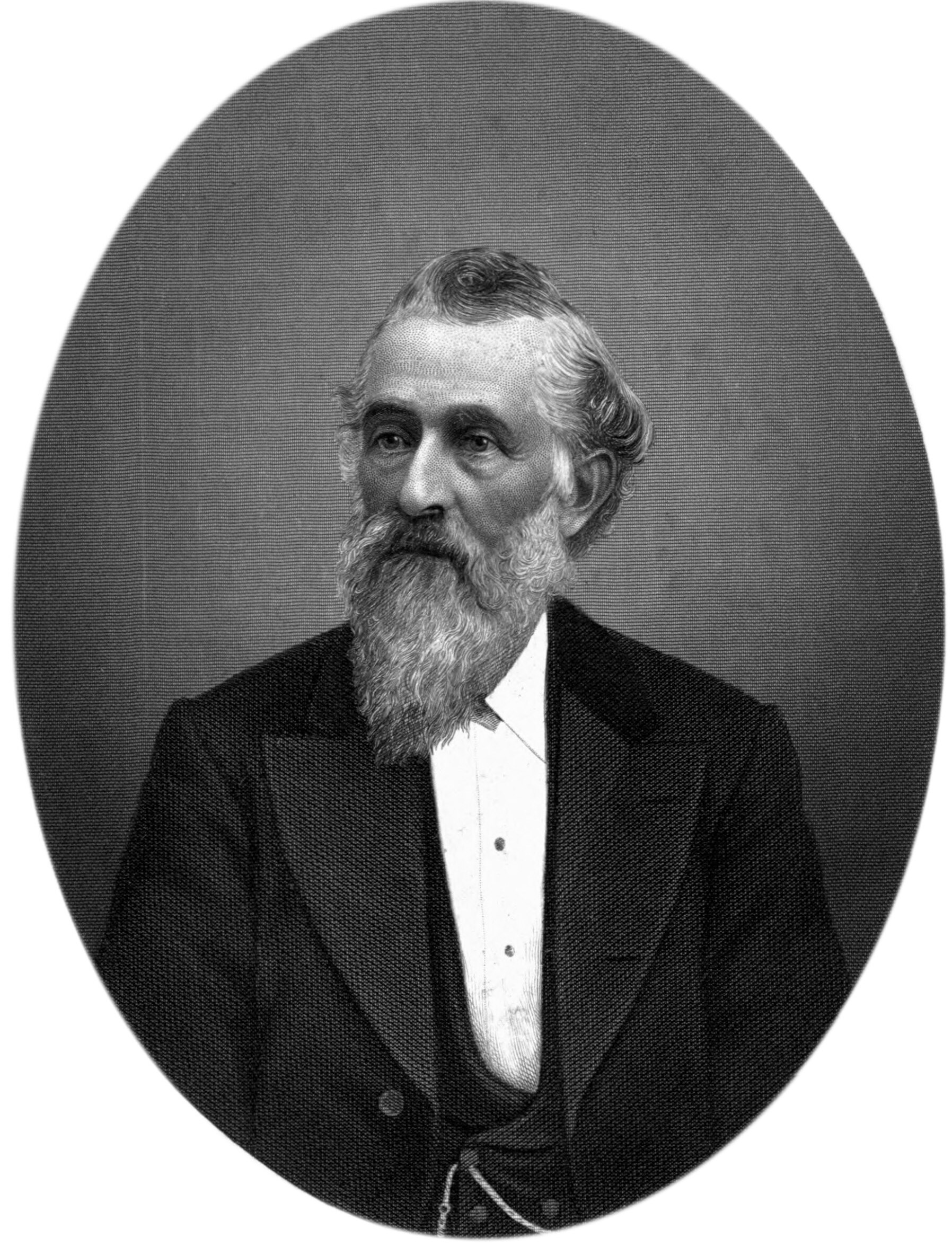 engraving of Lorenzo Snow, 5th Prophet of the Church of Jesus Christ of Latter-day Saints from Biography and Family Record of Lorenzo Snow